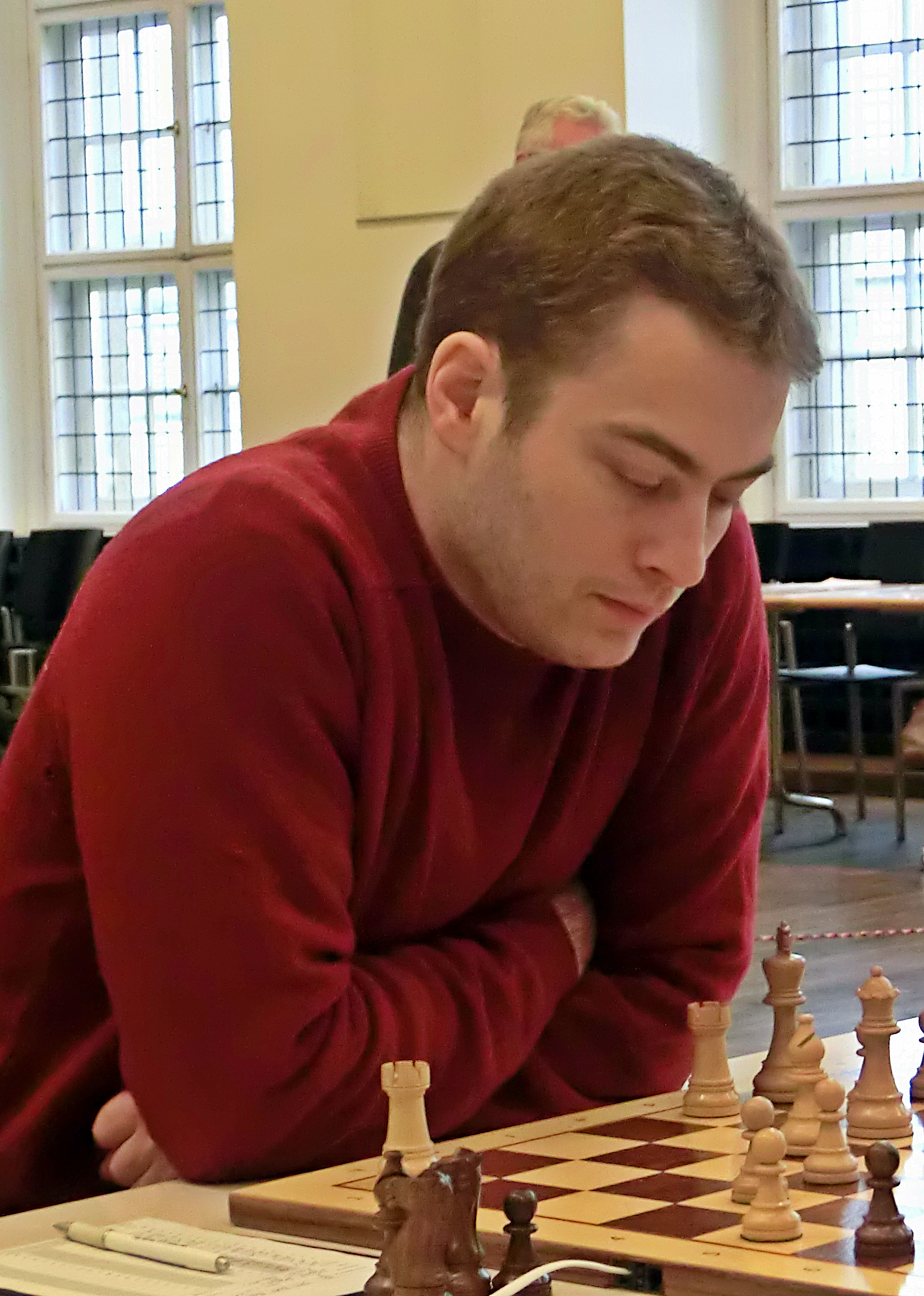 Mikael Agopov, chess player from Finland